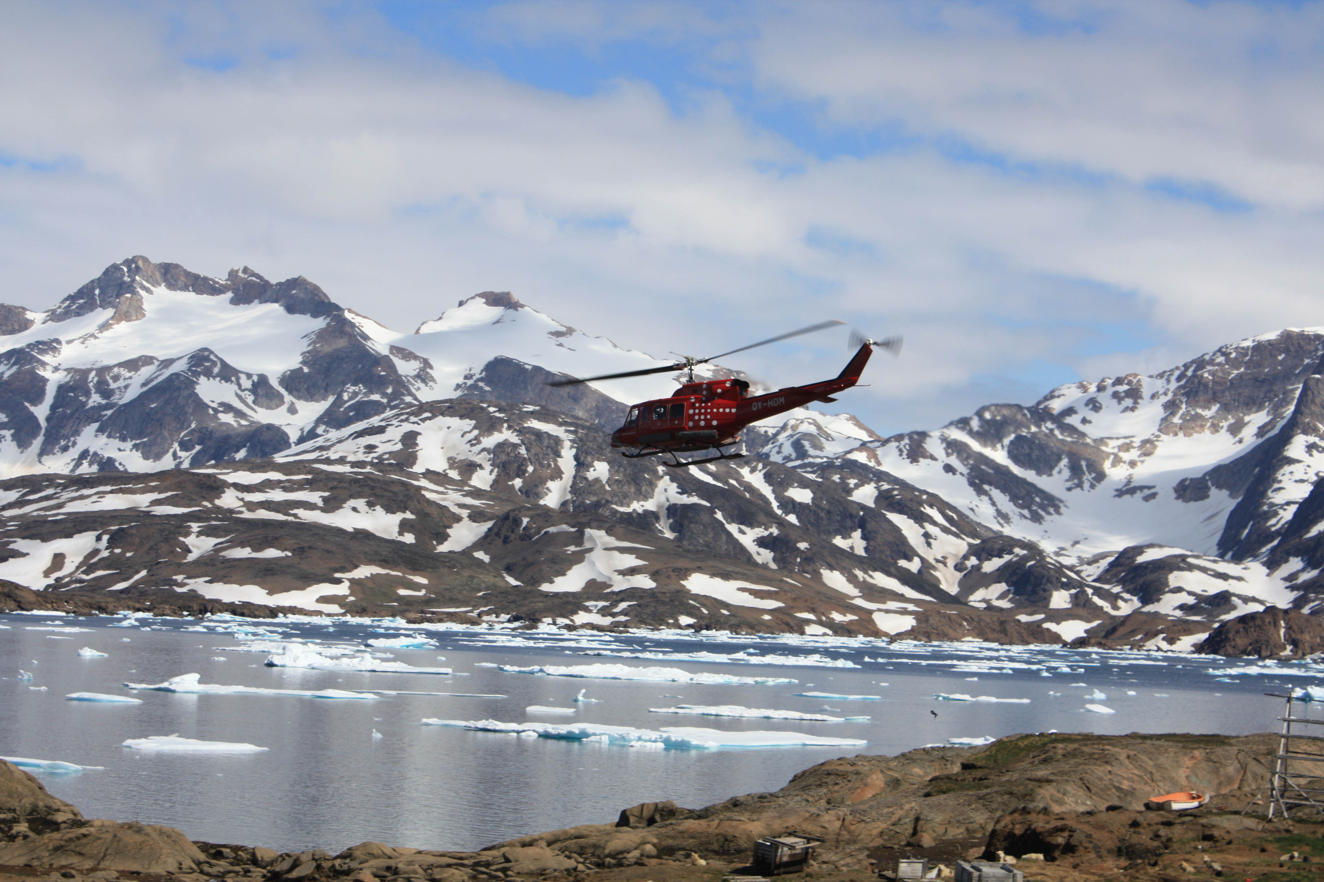 Check out my article on Greenland at